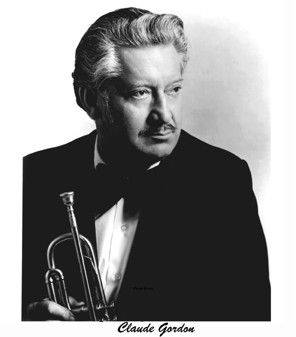 Claude Gordon photo